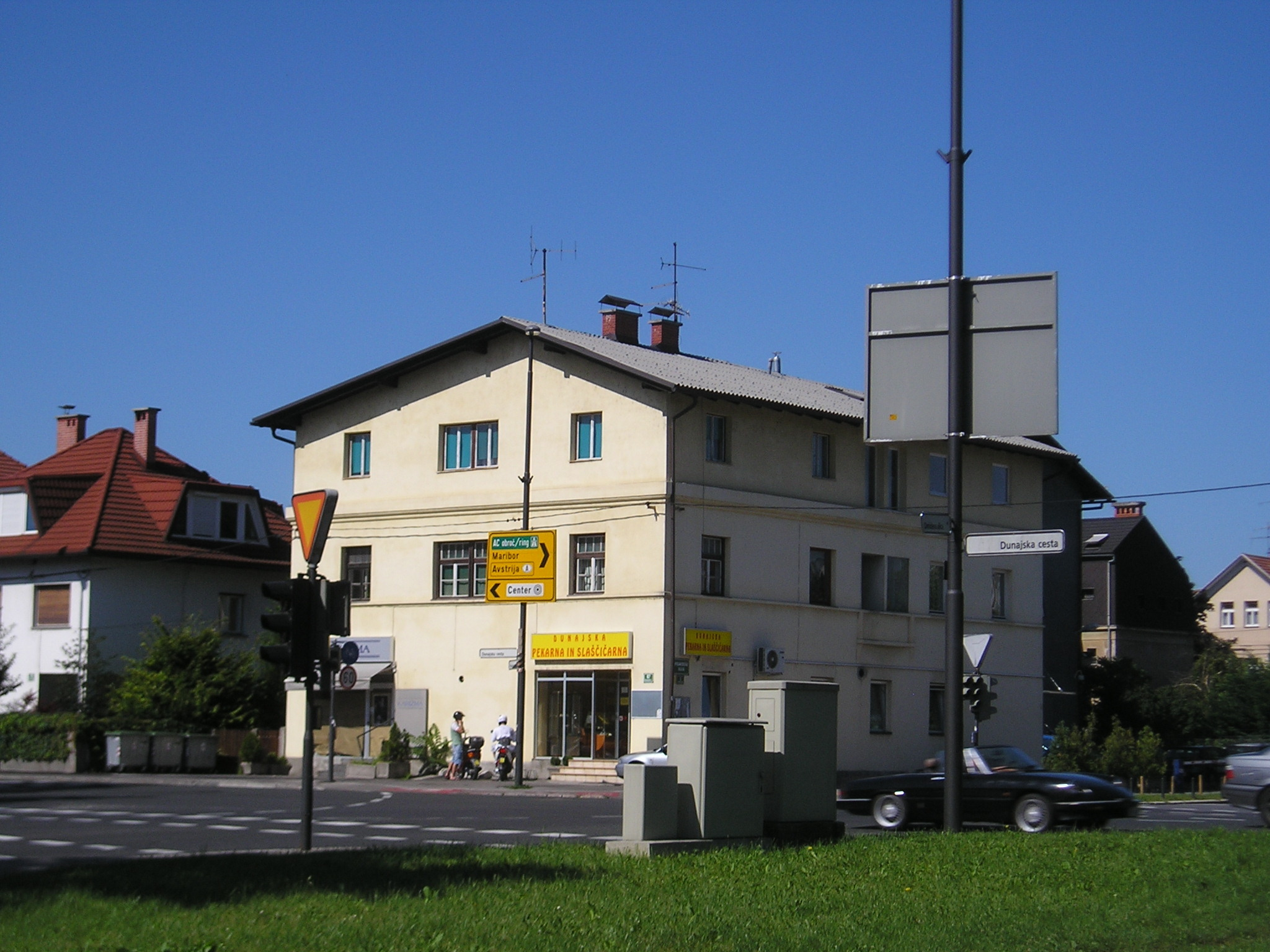 Ljubljana, Slovenia - a bakery and cake shop "Dunajska" at the crossroads of Dunajska and Posavskega streets. In the past it was also known as "pri mrtvi progi" ("at the dead rail line") as it was situated at the defunct Dravlje - Vodmat avoiding rail line